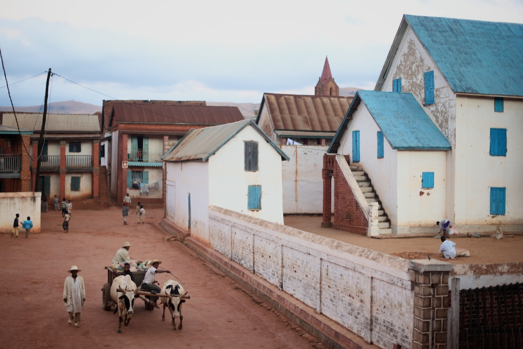 Soatanana (Madagascar) Village life